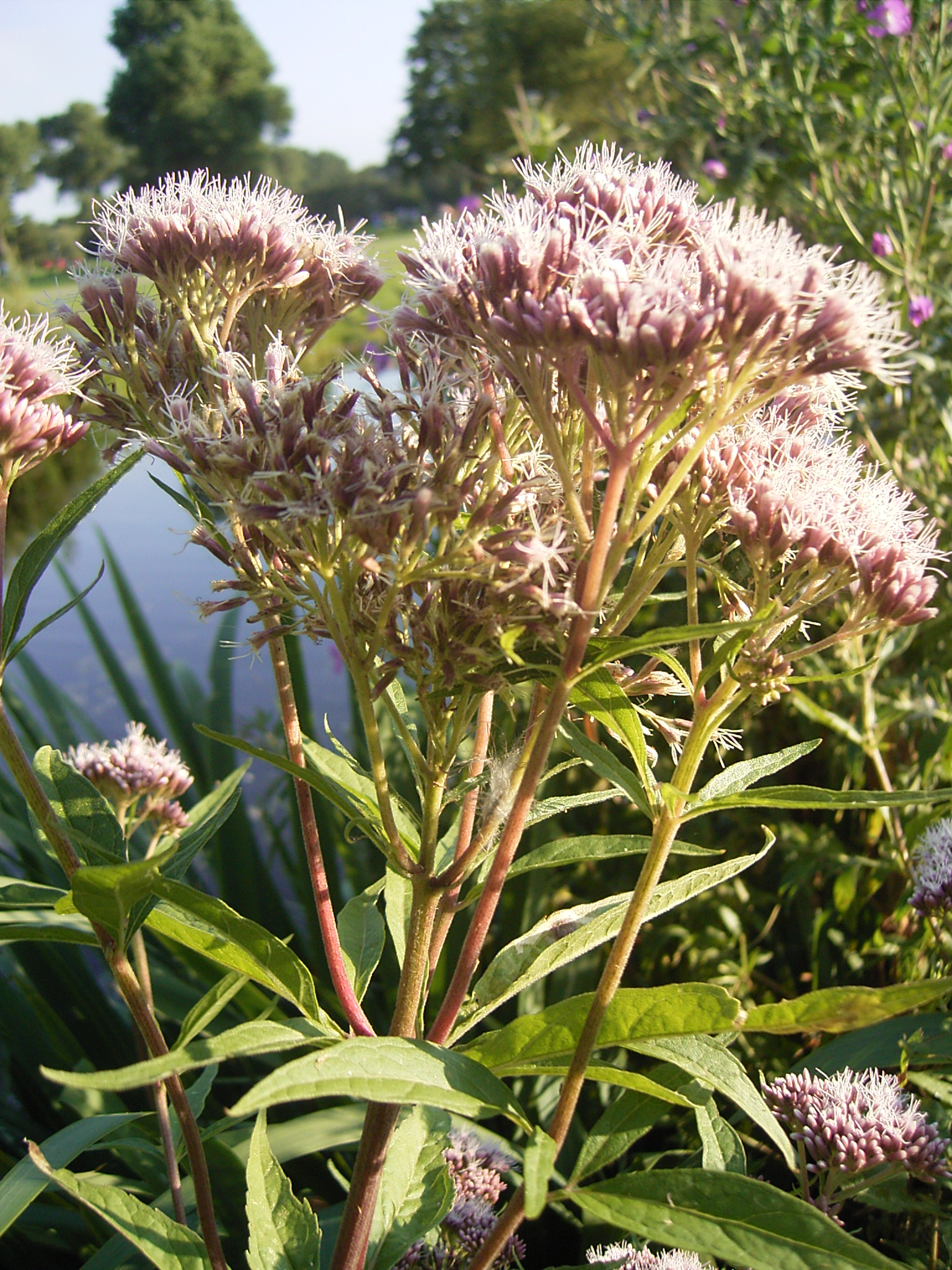 Deze foto toont de bloemhoofdjes van het Koninginnenkruid. Ik nam de foto op 16 augustus 2005 in Den Haag, Mariahoeve. This photo shows the flowerheads of Eupatorium cannabinum. I took this pic on aug 16, 2005 in The Hague, Netherlands